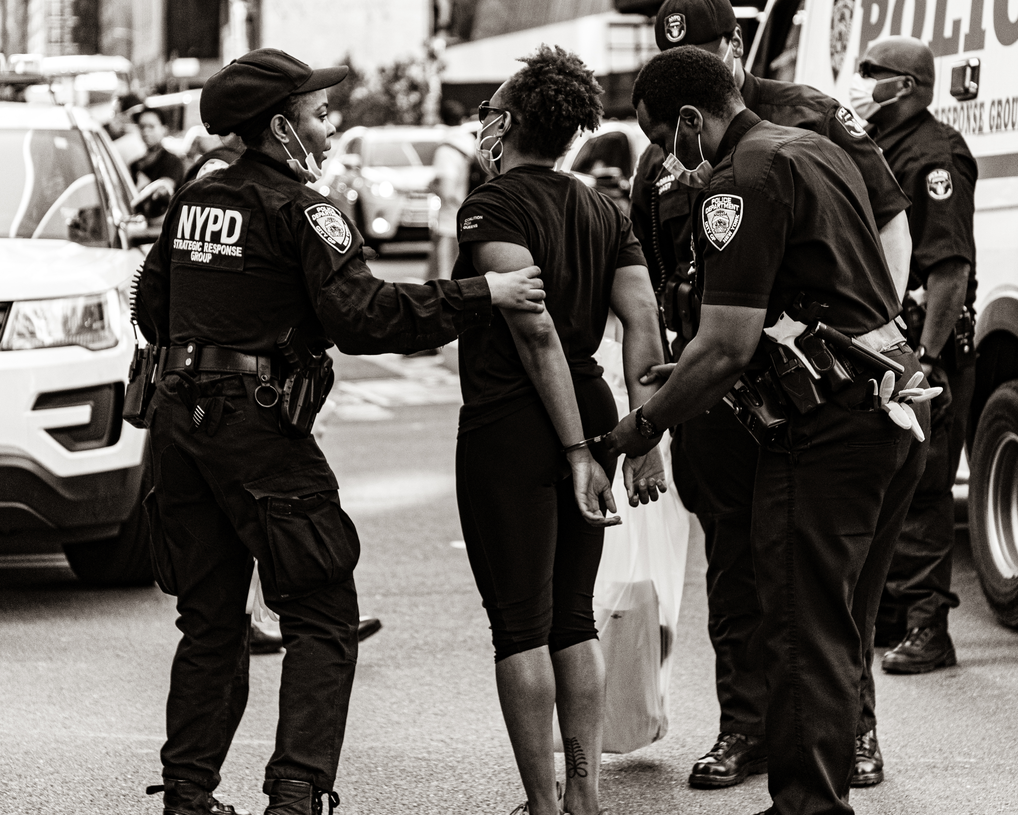 George Floyd protests in New York City